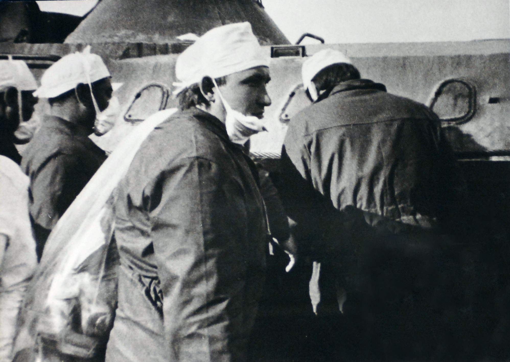 Historical collections of the Chernobyl accident from the Ukrainian Society for Friendship and Cultural Relations with Foreign Countries (USFCRFC). Clean-up operators receiving special rations - condensed milk and canned fish. Copyright: IAEA Imagebank Photo Credit: USFCRFC